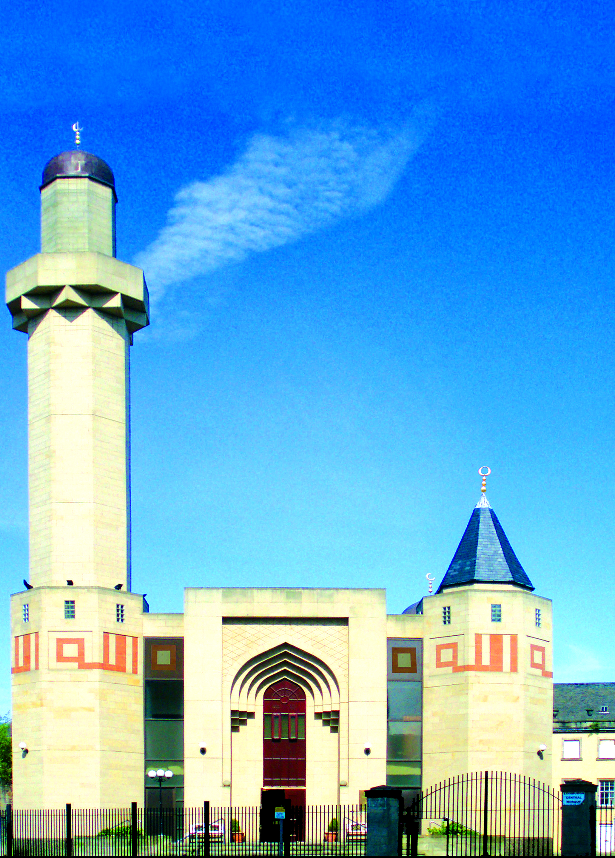 Great Mosque of Edinburgh, designed by Dr. Basil Al Bayati (Front)